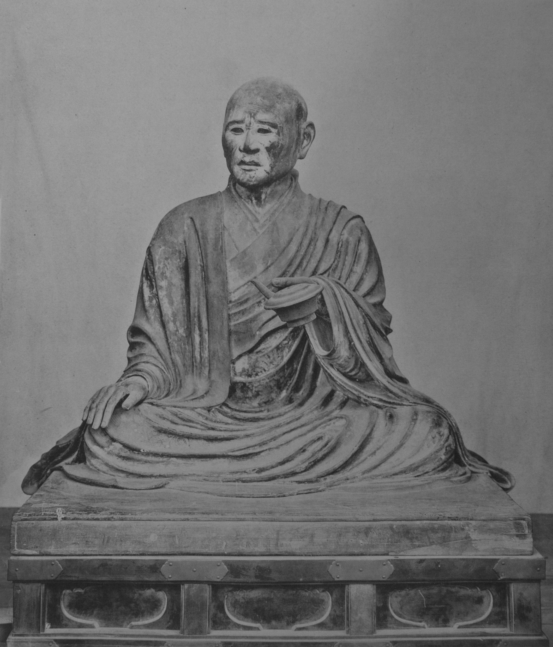 Kofukuji, Nara, Japan. Sculpture by Kōkei, 1188-1189, wood+color.